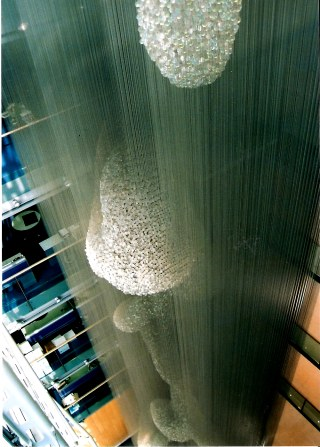 Thomas Heatherwick's Bleigeissen at the Wellcome Trust looking downward from the top floor. Over 145,000 glass beads were used